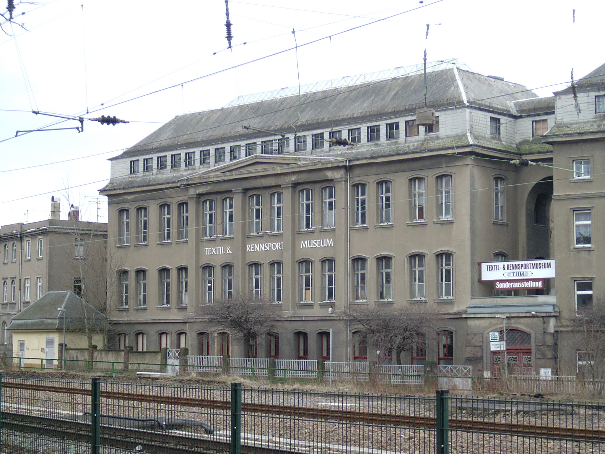 Museum for textiles and motorsport in Hohenstein-Ernstthal